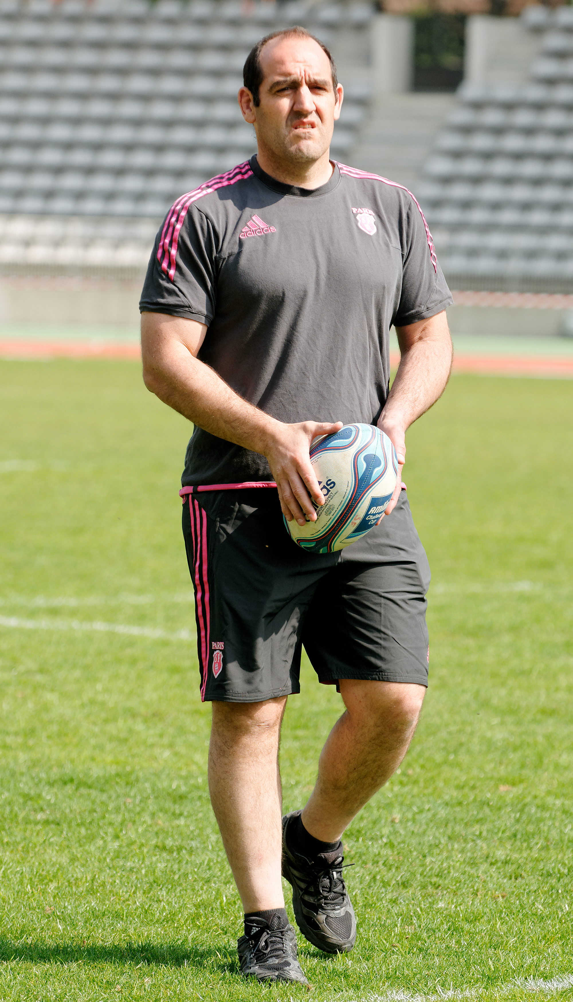 Mario Ledesma during the Stade Français training session held at Stade Charléty, Paris on 3 April 2012.